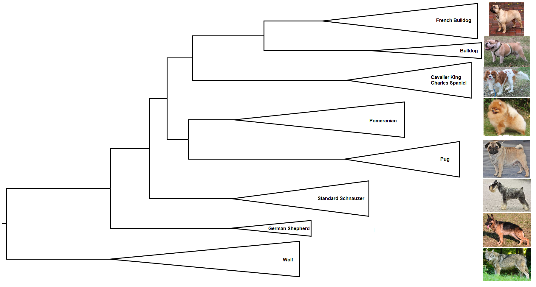 Phylogenetic tree of seven dog breeds (Canis lupus familiaris) rooted to Wolf (Canis lupus). Interestingly, it can be noted that as expected the German Shepherd results close to the wolf, but the Pug is relatively far away from the French Bulldog although apparently they look very much alike: the Pug is more close to the Pomeranian. Data Single Nucleotide Polymorphism sequences from The NHGRI Dog Genome Project at Filter The sequences of seven dog breeds (German Shepherd, Standard Schnauzer, Pug, Pomeranian, Cavalier King Charles Spaniel, Bulldog, French Bulldog) were selected together with those of Wolf. Analysis The software RAxML 8 (Randomized Axelerated Maximum Likelihood) was used for phylogenetic analysis of the dataset under maximum likelihood ( Photos Wolf: By Zahkthar - File:Loup Brun.jpg public domain, CC0, German Shepherd: By Hans-Günther Schöner - per E-Mail von. Hr. Schöner erhalten, Public Domain, Standard Schnauzer: By James025 - Own work, CC BY-SA 3.0, Pug: By Mops_oct09.jpg: Dagur Brynjólfsson from Hafnarfjordur, Iceland;derivative work: Anka Friedrich - (File:Mops_oct09_cropped.jpg), CC BY-SA 2.0, Pomeranian: By Blackoranges - Own work, Public Domain, Cavalier King Charles Spaniel: By Sheba_Also 43,000 photos - CC BY-SA 2.0, Bulldog: By Sheba_Also 43,000 photos - CC BY-SA 2.0, French Bulldog: By Cristorresfer - Own work, CC BY-SA 4.0